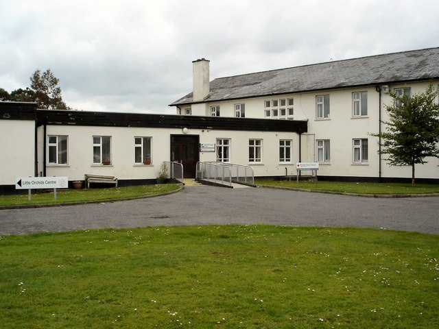 Red Cross building Gransha The building presently occupied by the Red Cross in the grounds of Gransha and Stradreagh hospital. It was formerly a nurse's home.